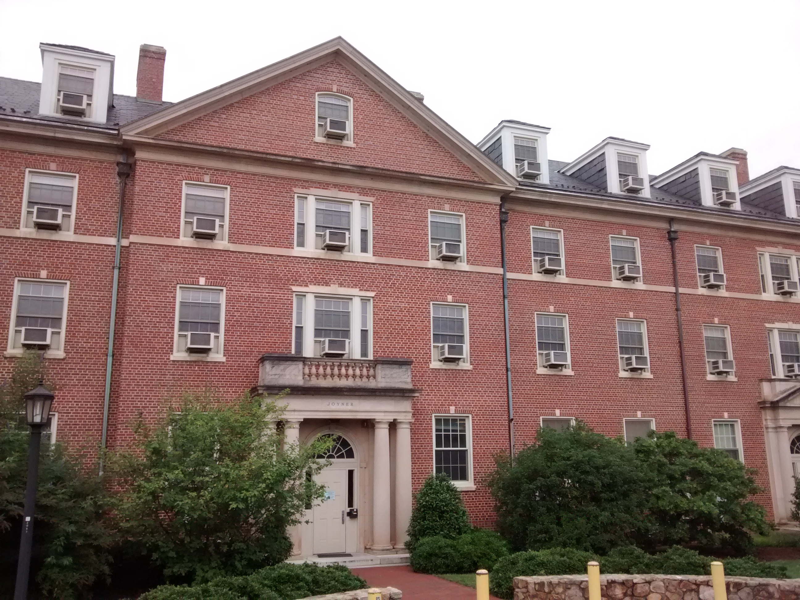 Joyner Residence Hall at the University of North Carolina at Chapel Hill.